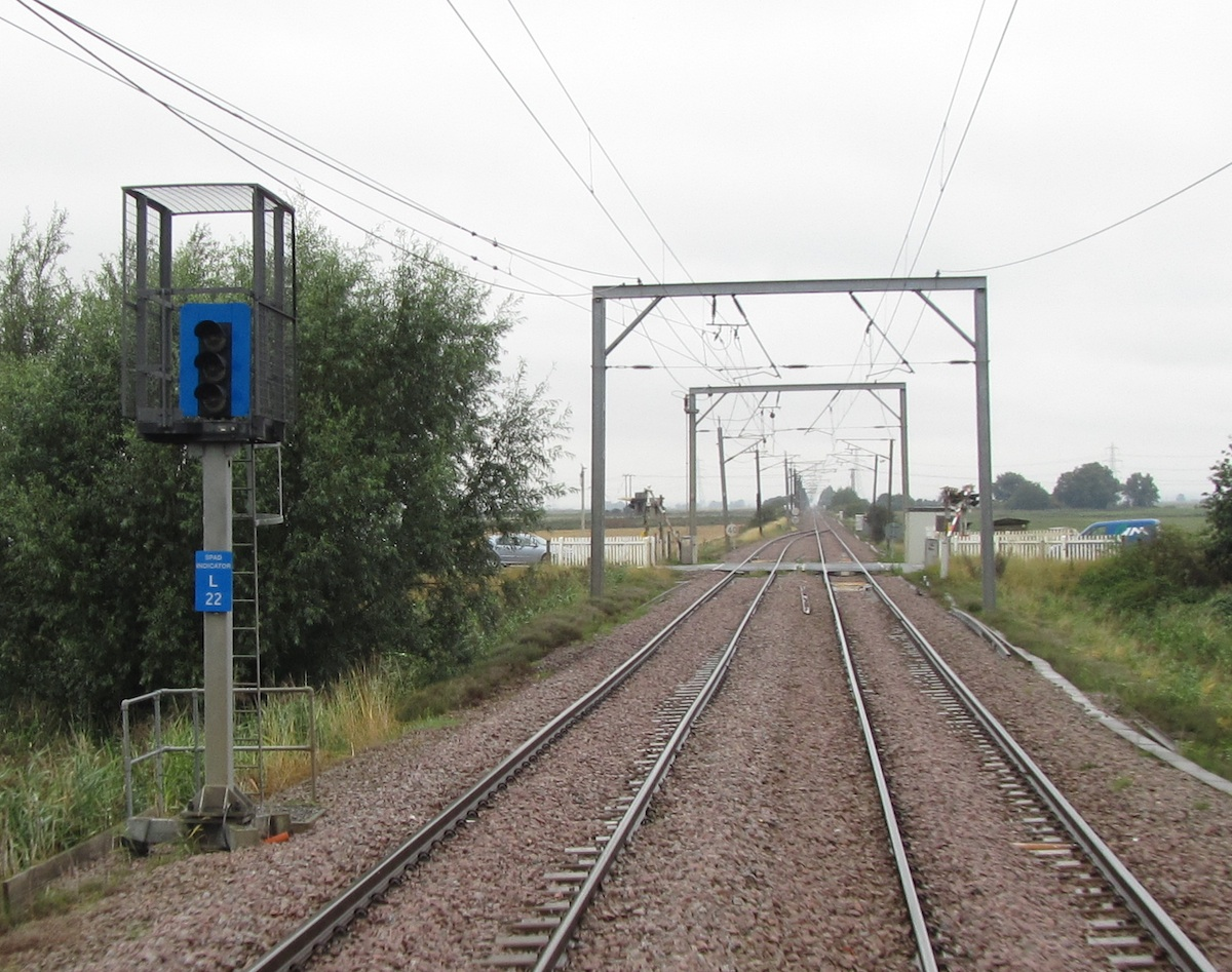 SPAD Indicator protecting the entrance to a single line section